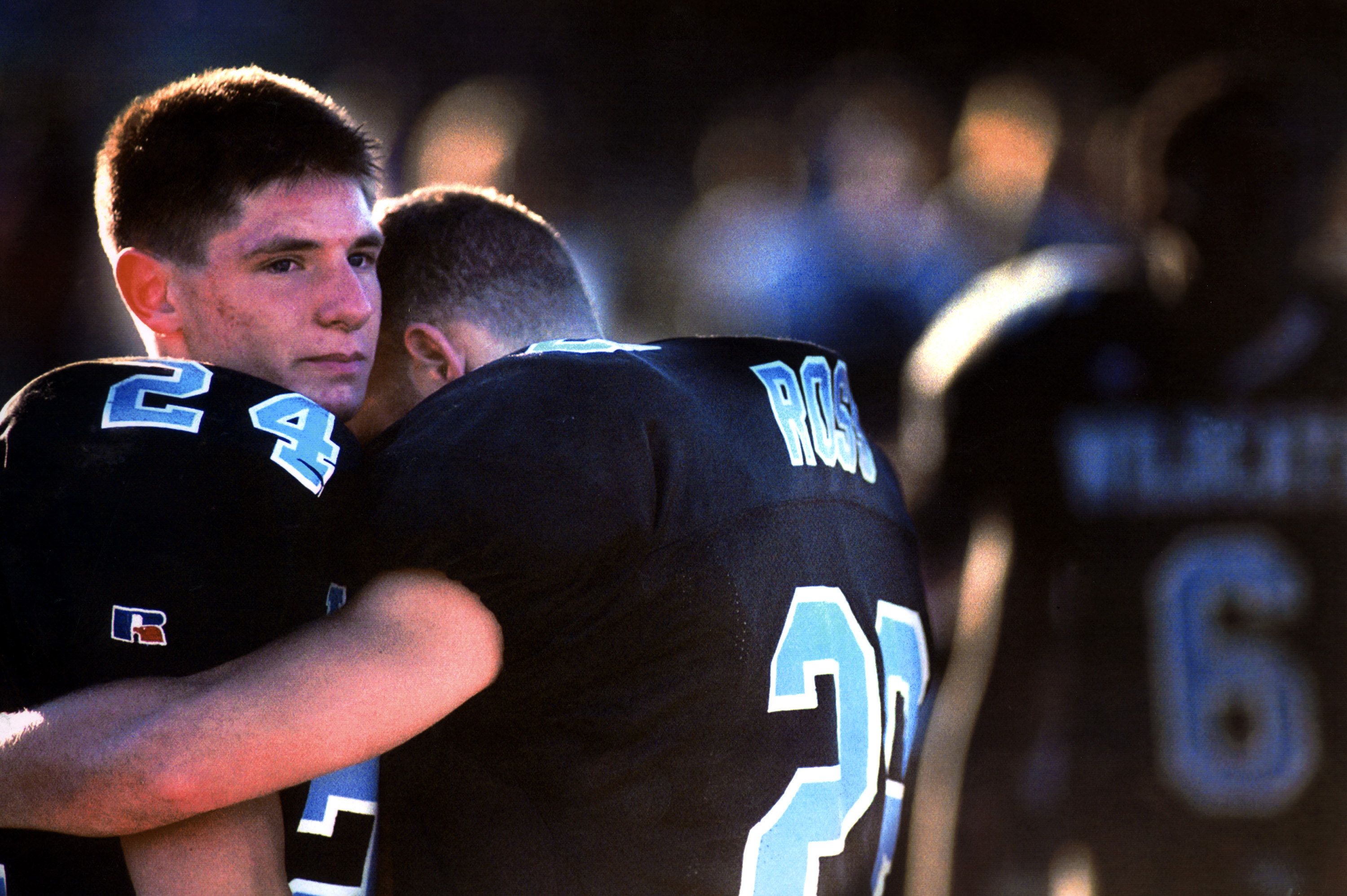 Military Photographer of the Year Winner 1998, Title: Numb After Loss, Category: Sports, Place: Second Place Sports/First Place Portfolio. Centreville High School defensive back Josh Mosser is numb after his team loses to a rival in the VHSL Group AAA division 6 state semifinal football match at South Lakes High School in Reston, Virginia.